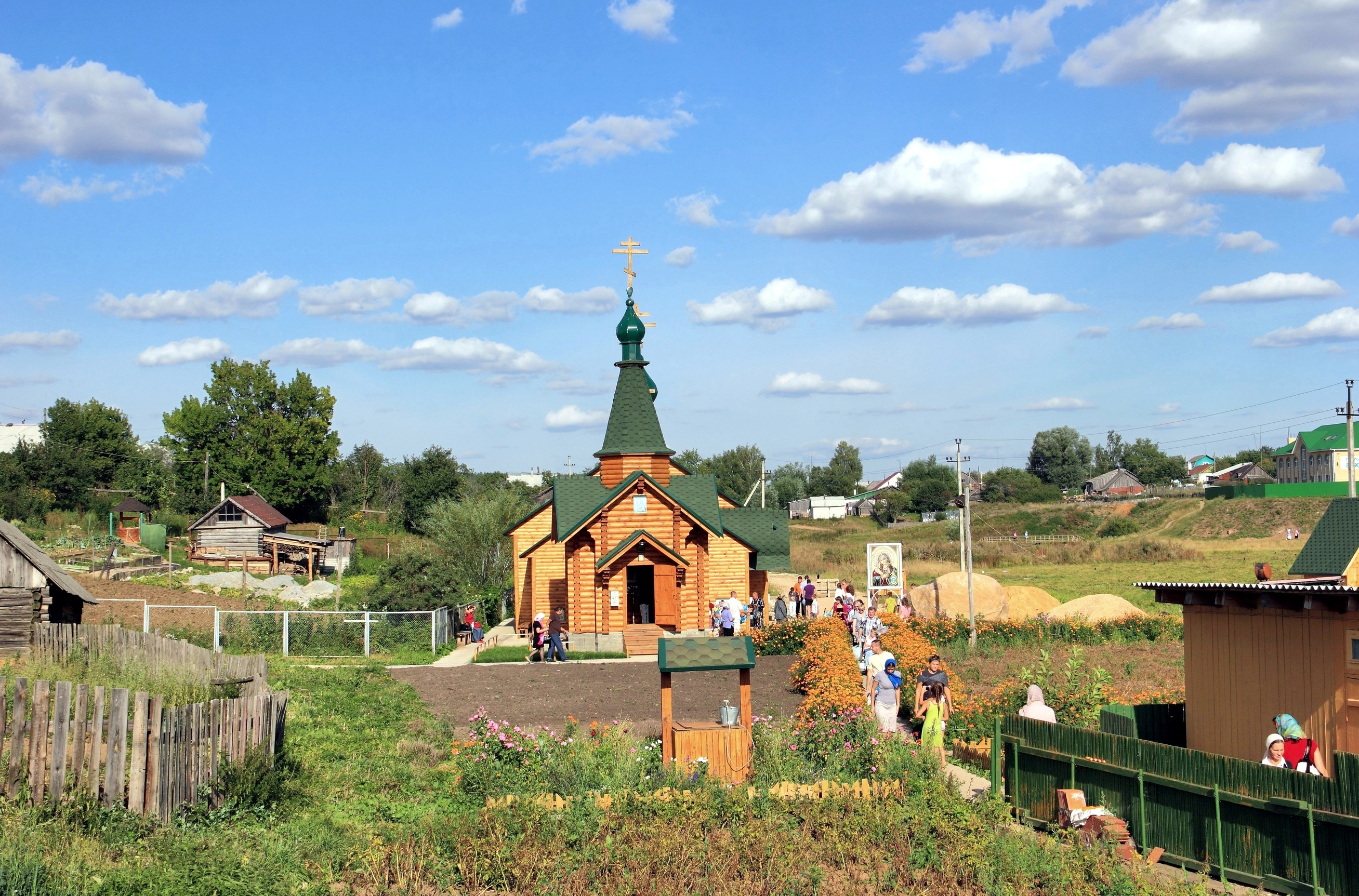 Diveyevo. Holy source